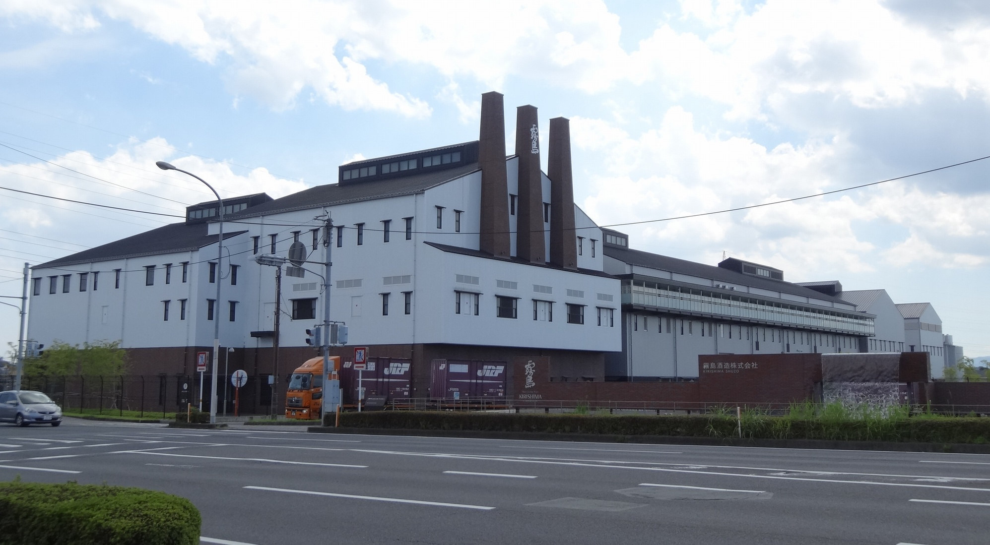 Kirishima Shuzo Main Office (Shōchū - Miyakonojo City, Miyazaki Prefecture, Japan)